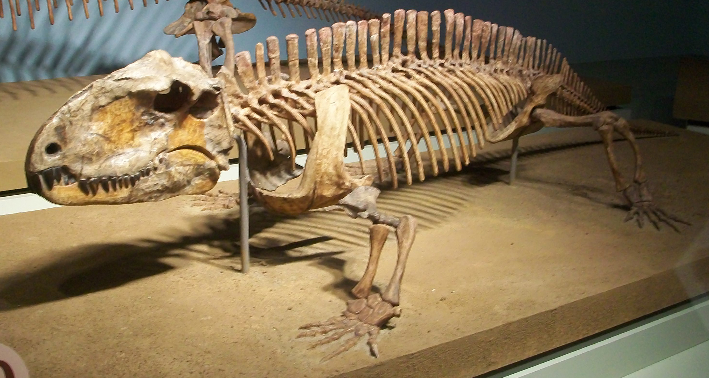 Skeleton of Sphenacodon ferox in the Field Museum of Natural History.